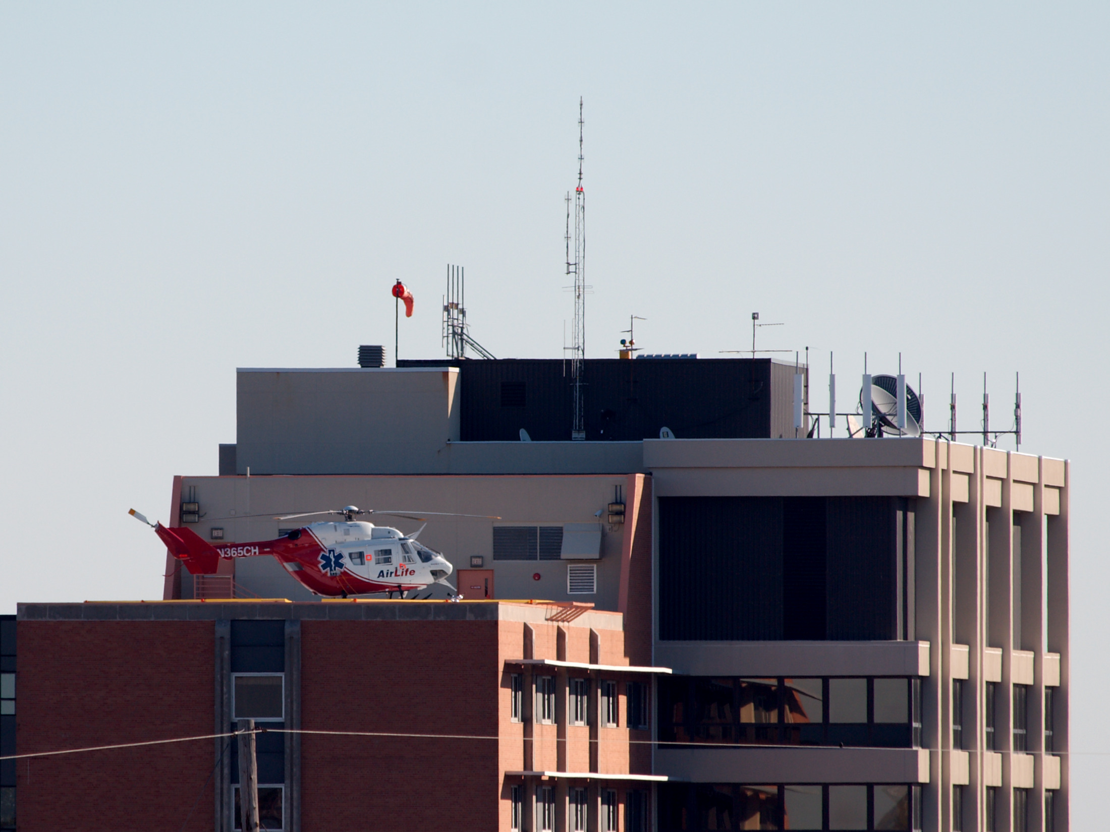 An air ambulance on top of the Carle Hospital, Urbana, IL